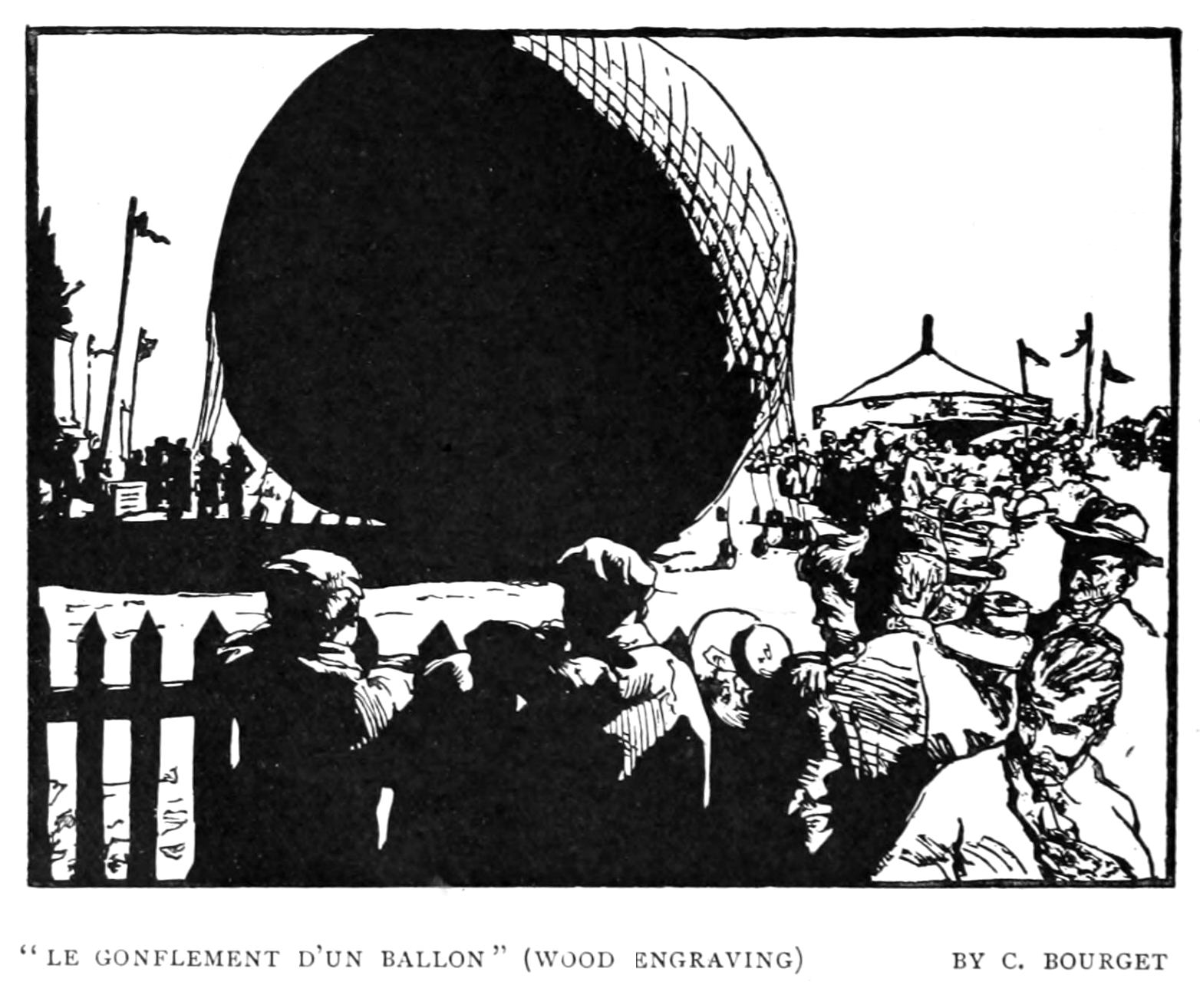 Le Gonflement d’un ballon (Inflation of a Balloon), a wood engraving by Camille Bourget